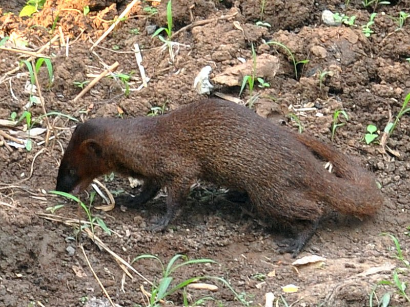 Javan mongoose, Herpestes j. javanicus; from Bogor, West Java, Indonesia.